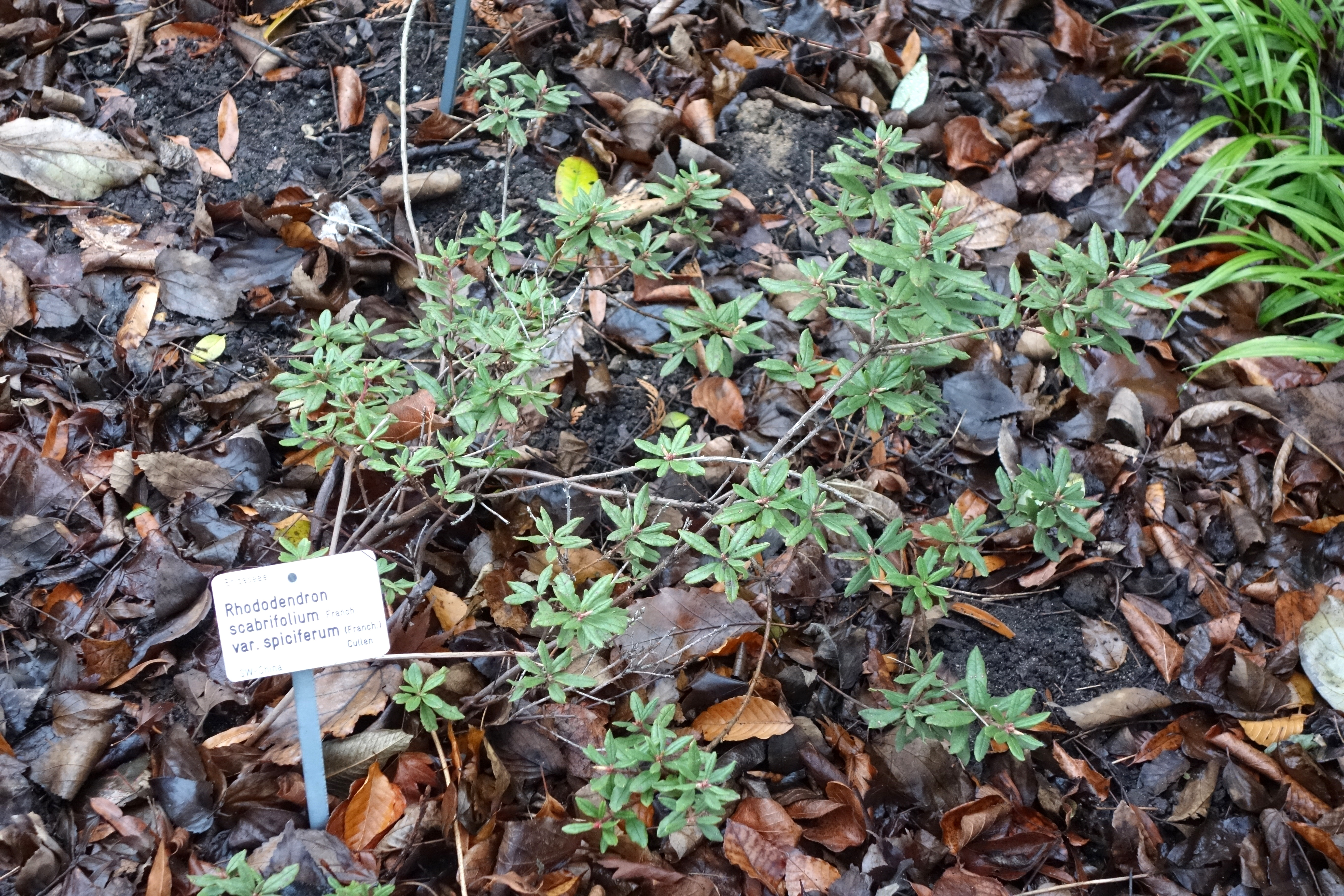 Botanical specimen in the Botanischer Garten, Dresden, Germany.